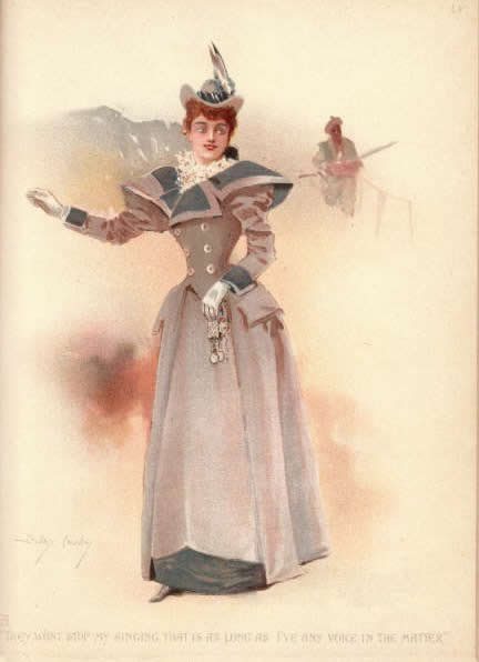 Florence St John as Rita in The Chieftain